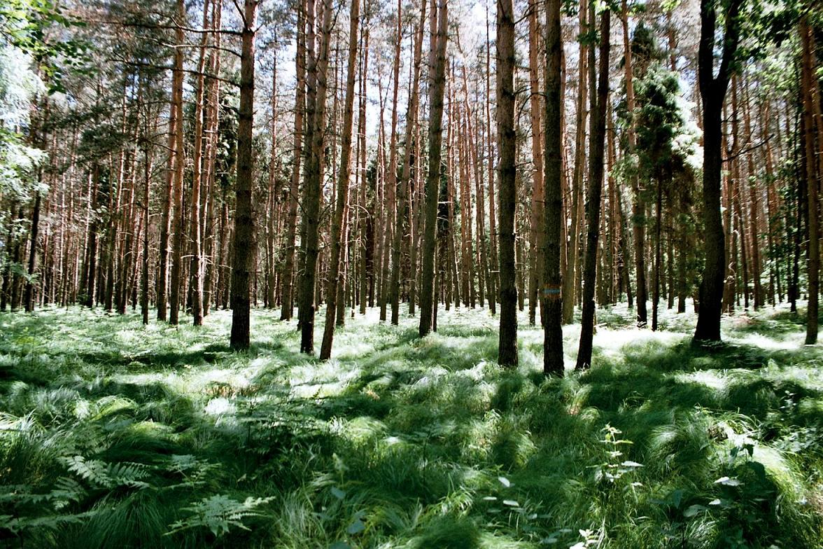 Pomnik Przyrody Kamienna Góra w Katowicach